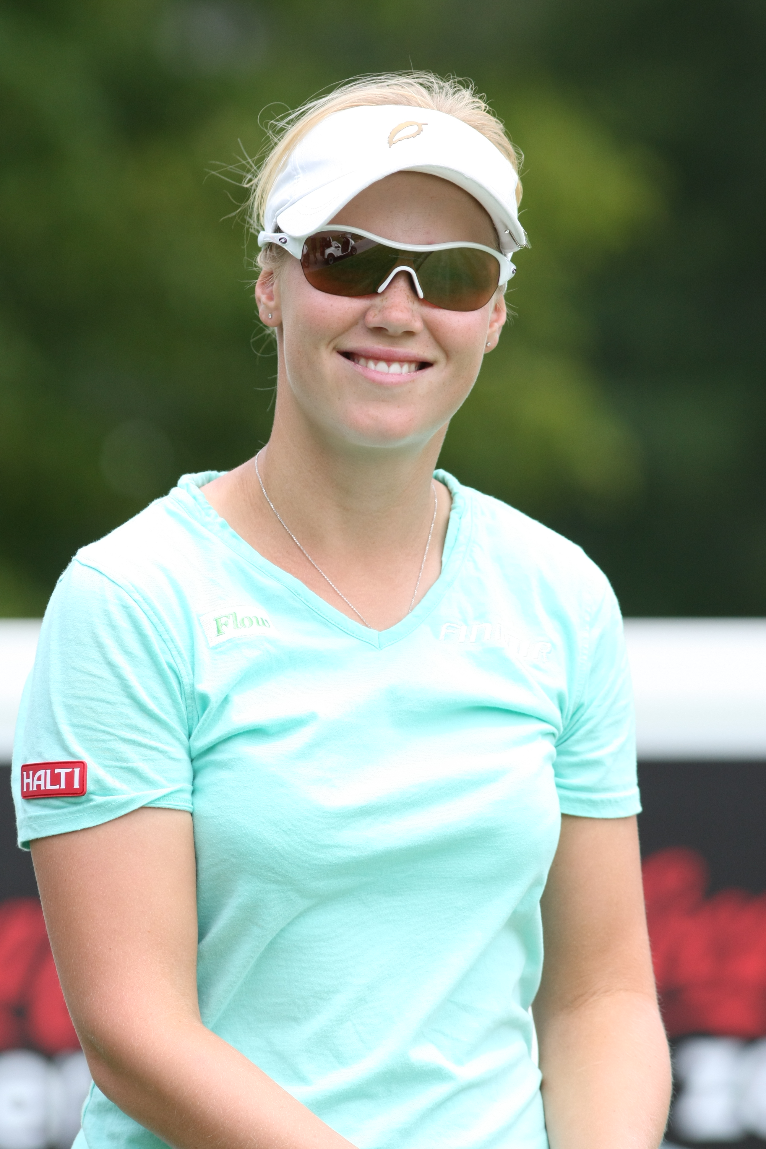 Minea Blomqvist (FIN) during pro-am before 2008 LPGA Championship